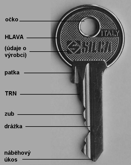 Key parts, Czech description.